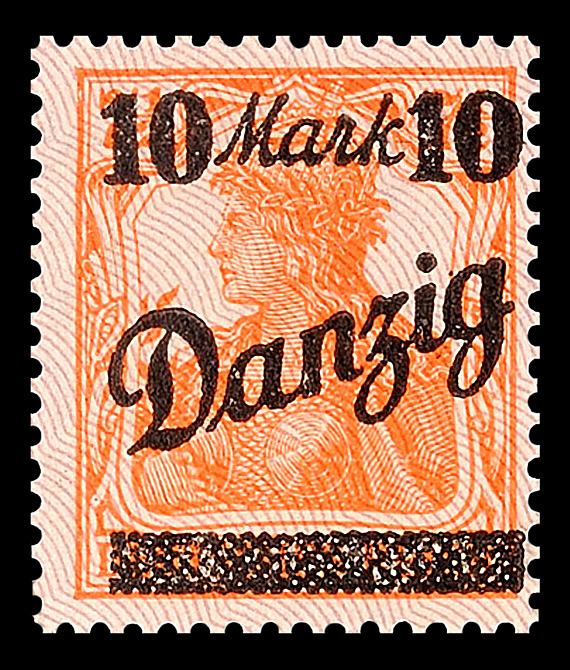 Germania stamps with overprints Ausgabepreis: 10 Mark First Day of Issue / Erstausgabetag: 1. November 1920 Michel-Katalog-Nr: 46II (Danzig) (auf 99 Deutsches Reich)